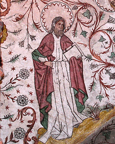 A male saint in Överselö kyrka